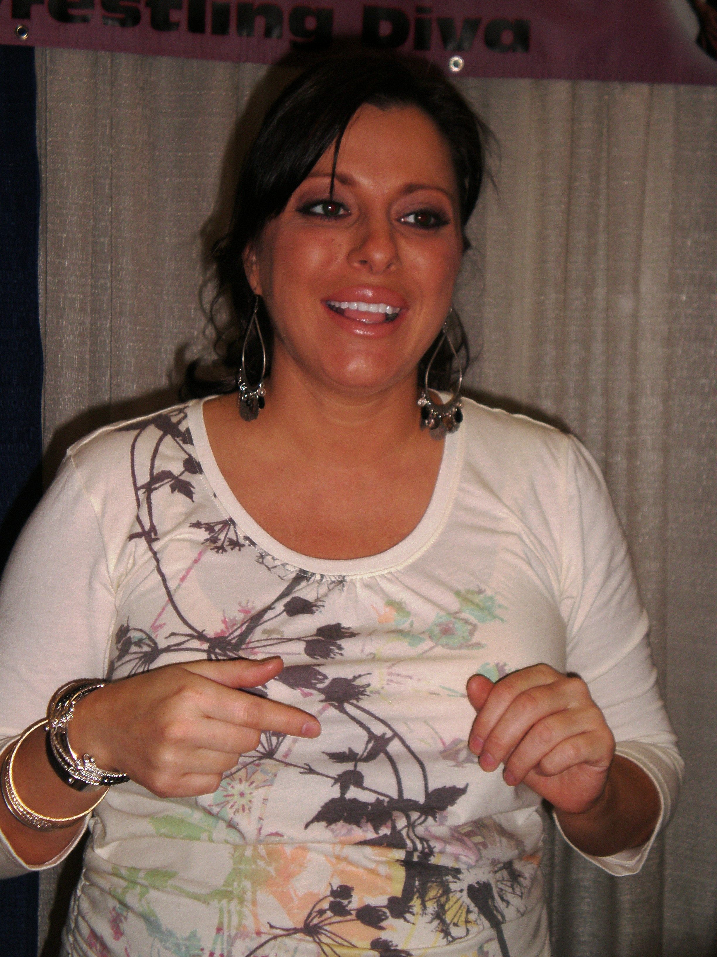 Dawn Marie Psaltis at WonderCon 2009.